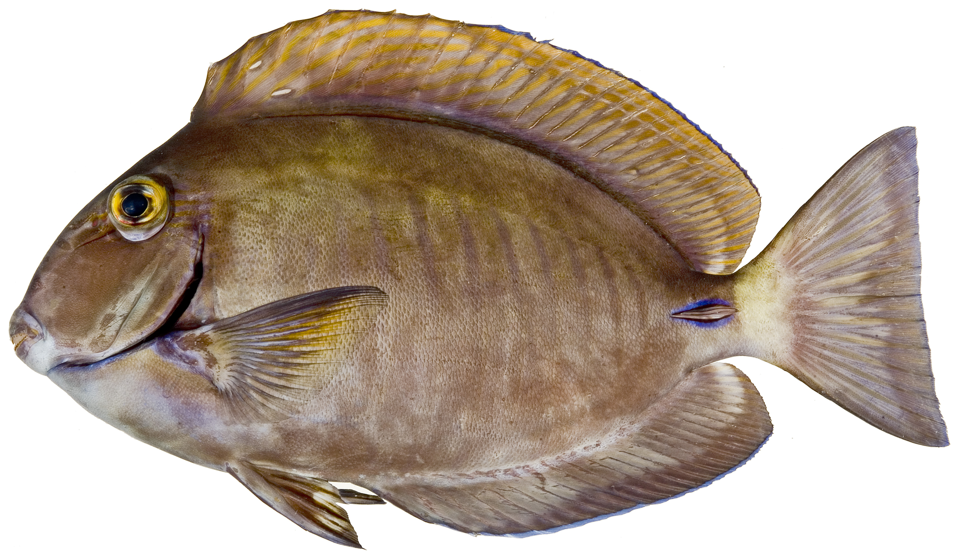 Acanthurus chirurgus (Bloch, 1787)—doctorfish, 168.0 mm SL. Photo by JT Williams.